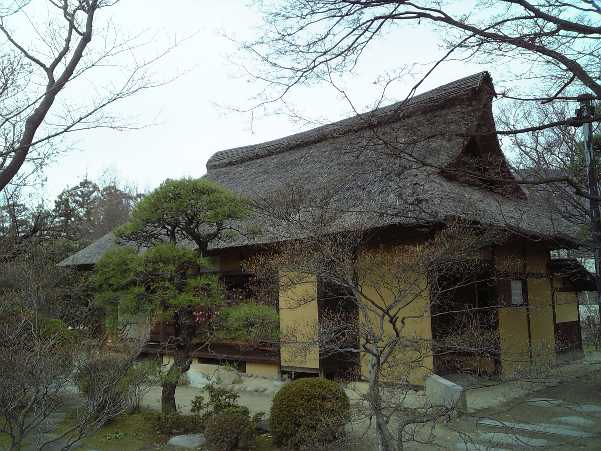 Hattake-Shoin In classic library style building